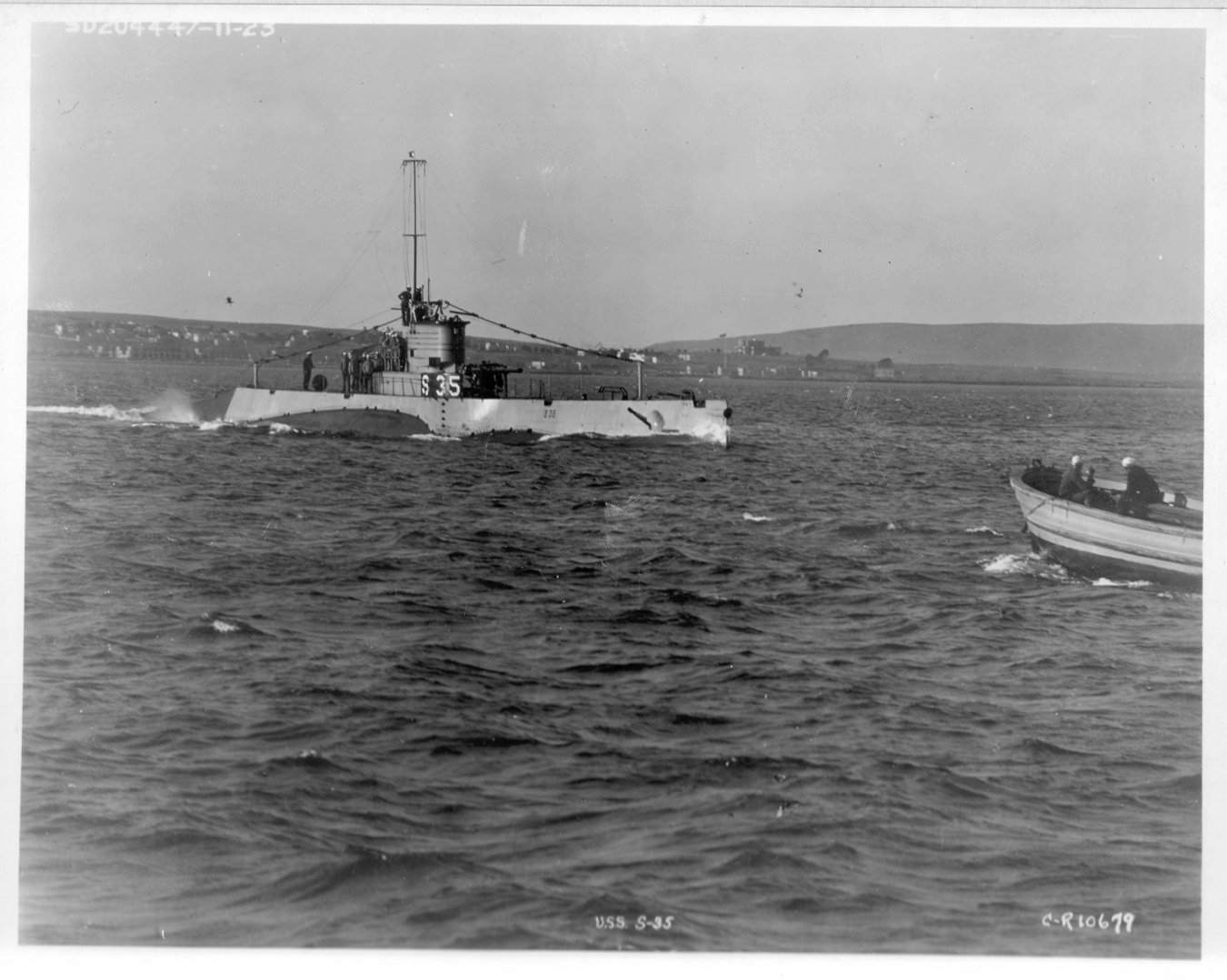 United States Navy submarine off San Diego, California.